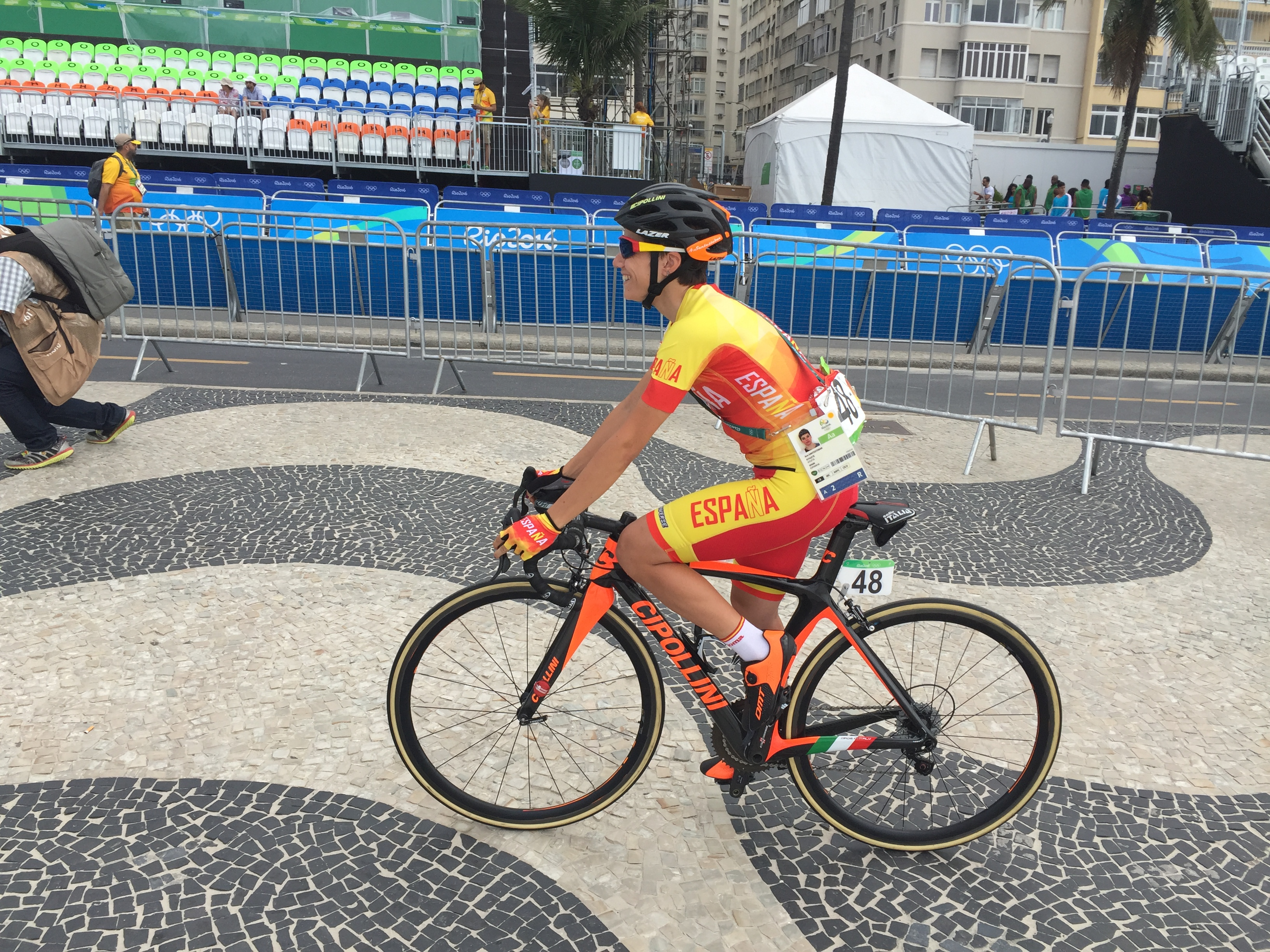 Women's road race - Rio 2016